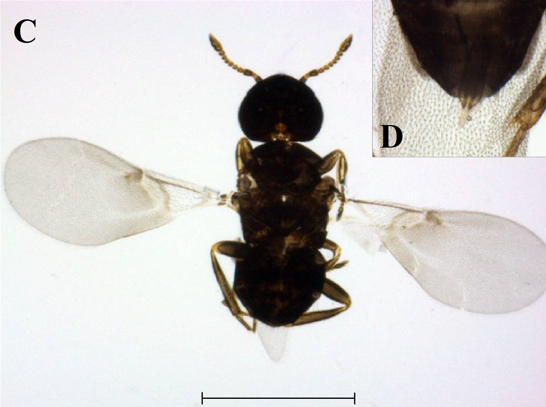 Ixodiphagus hookeri, male habitus (C) with magnified genitalia (D), scale bar 0.5 mm